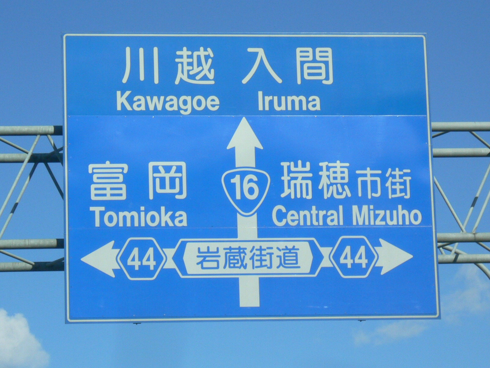 Route 16 & Tokyo metro road 44(国道16号/東京都道44号瑞穂富岡線), Mizuho T, Tokyo M.